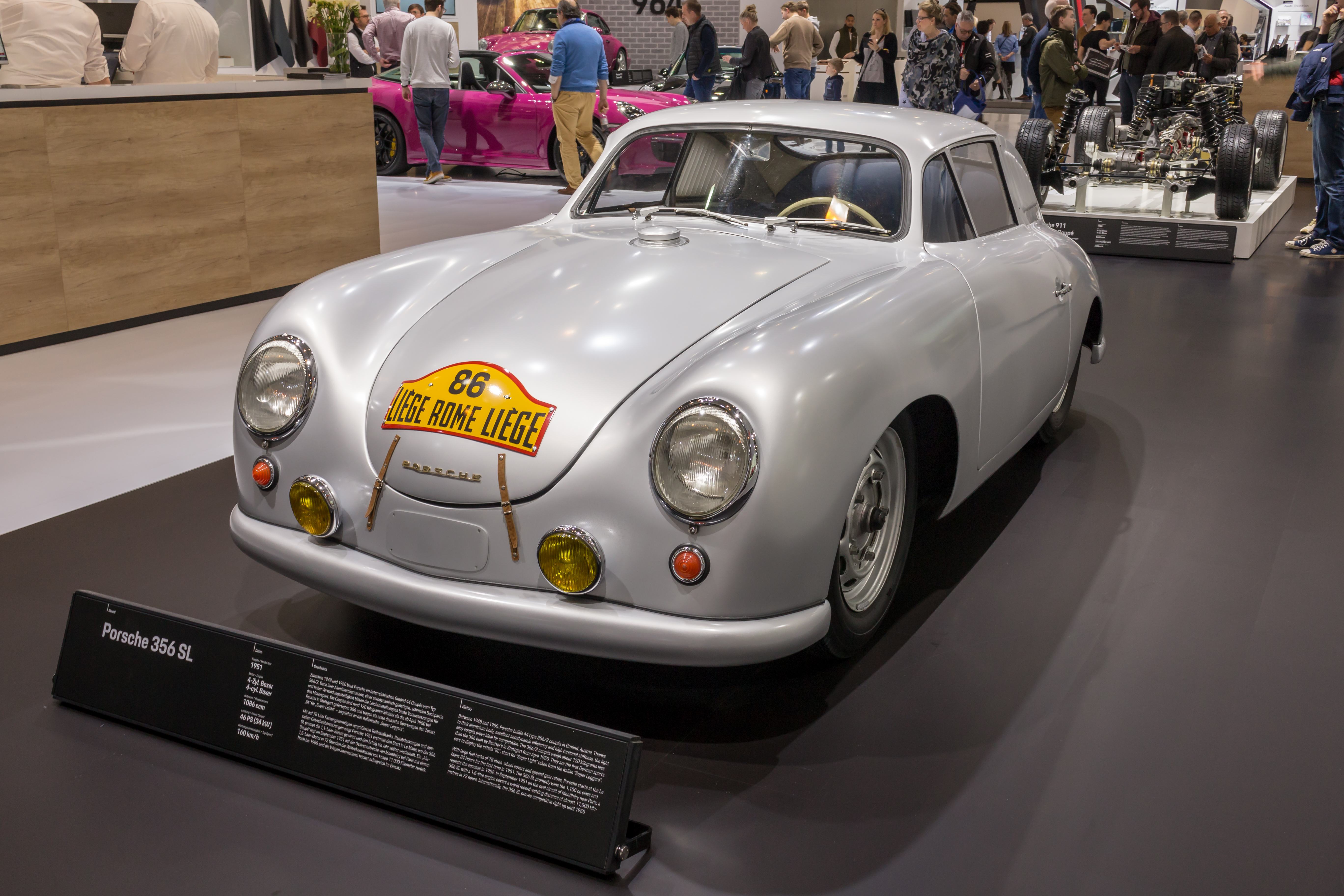 Porsche, Techno-Classica 2018, Essen